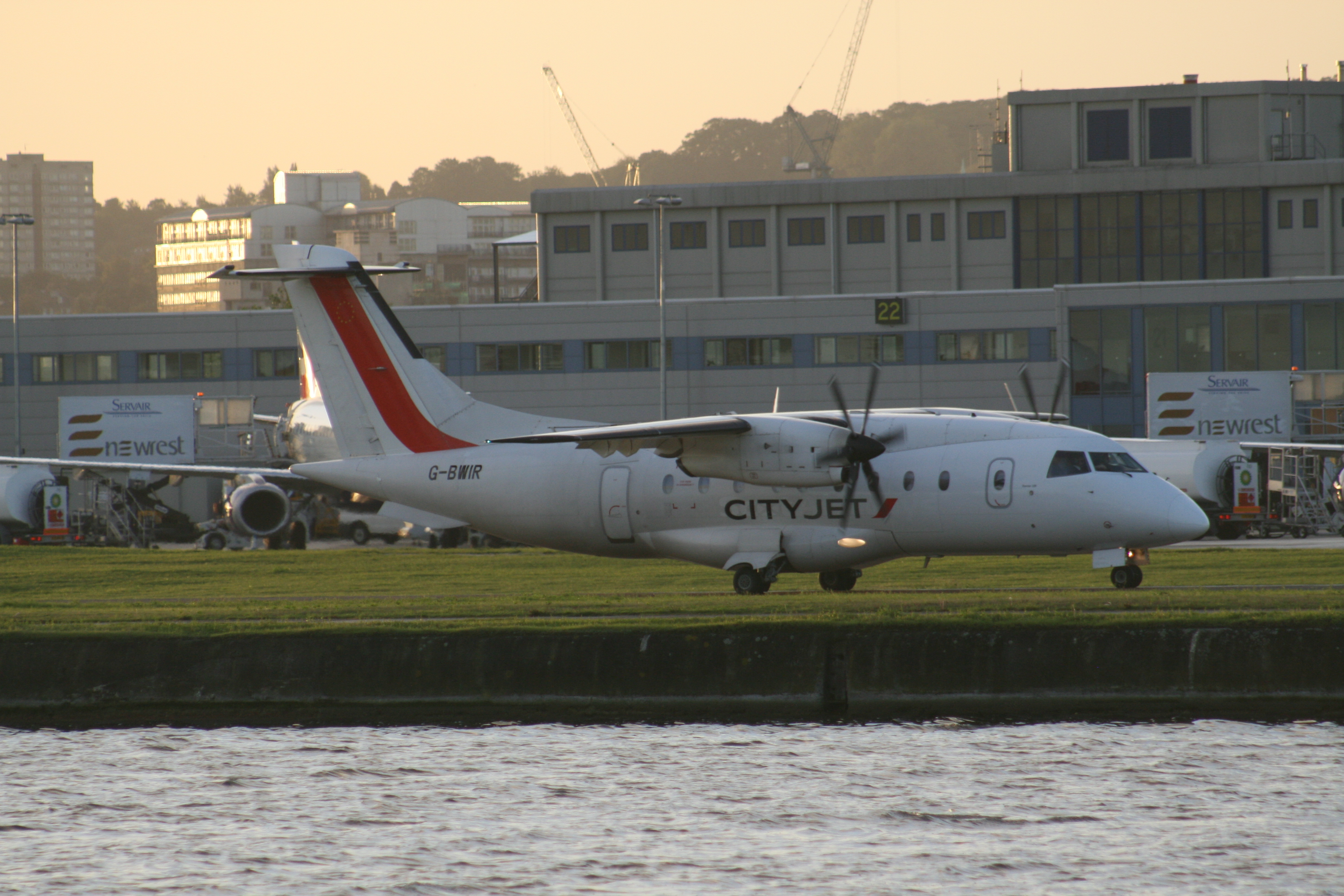 A ScotAirways Dornier 328 turboprop, operating on behalf of CityJet and wearing its livery, taxies towards its parking bay at London City Airport. Digital image of G-BWIR taken by YSSYguy on 19 October 2010 and uploaded for use in the Suckling Airways article